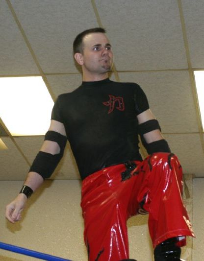 Professional wrestler Mike Quackenbush (real name Michael Spillane) at a Chikara show in June 2008.